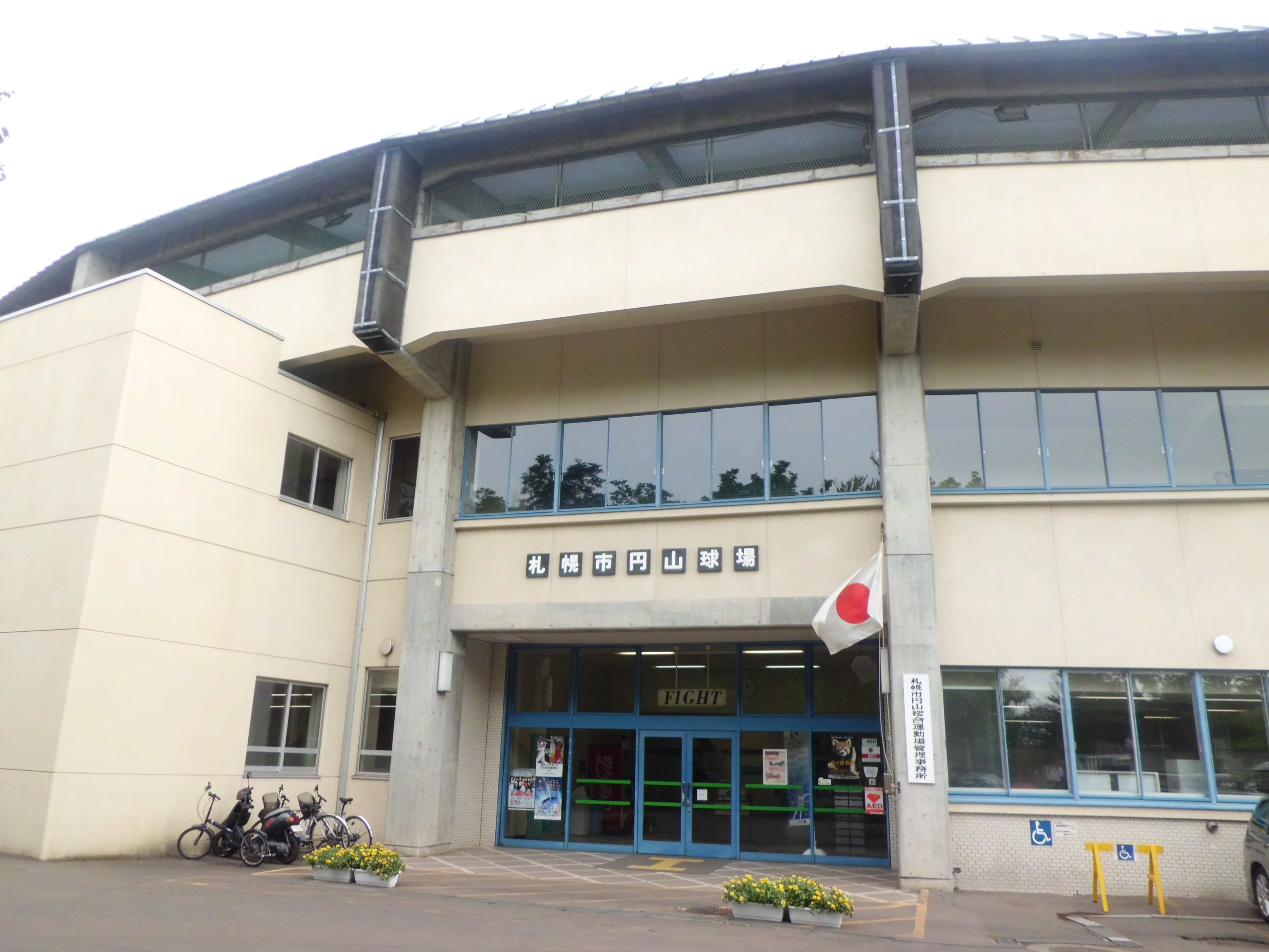 Sapporo City Maruyama Bsaeball Stadium